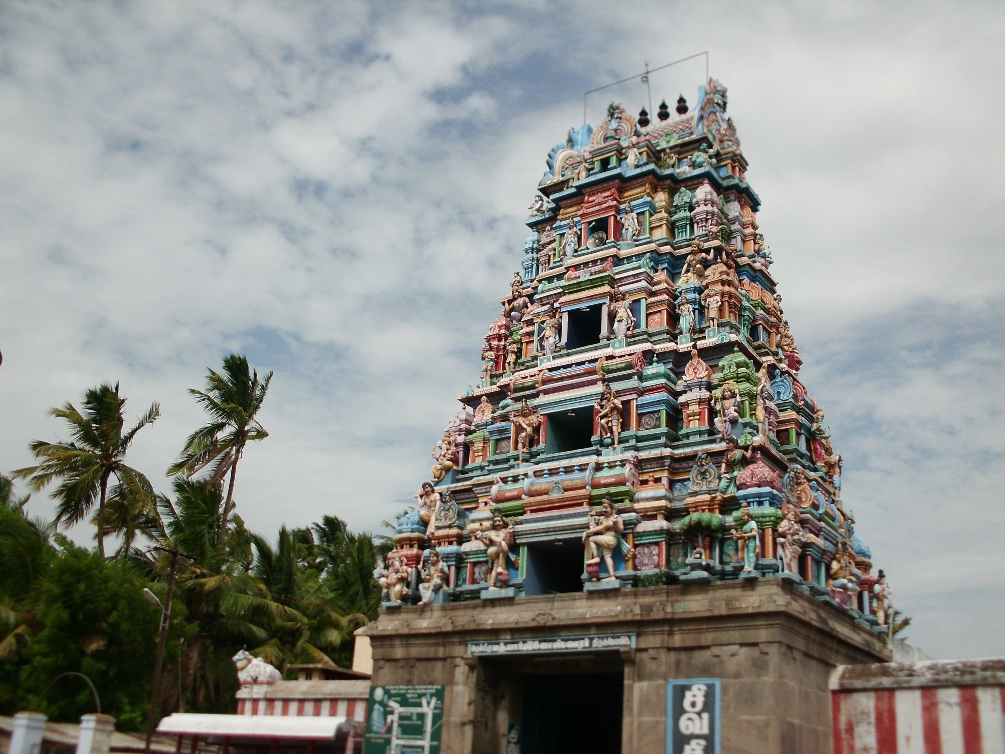 Very Famous T ample Kulithalai